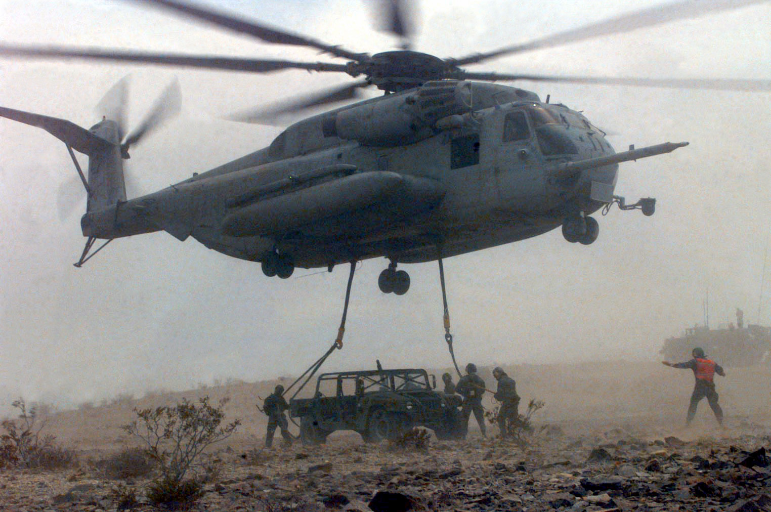 A CH-53E "Super Stallion" from HMH-461, MCAS New River, North Carolina, externally lifts an M998 High-Mobility Multipurpose Wheeled Vehicle (HMMWV) during HST (Helicopter Support Team) training at Observation Post (OP) Crampton during Combined Arms Exercise. From the Depart of Defense image search website - Defense Visual Information Center. Picture comes up if you search for HMH-461. ID: DM-SD-03-01429 Service Depicted: Marines Command Shown: II MEF 970517-M-0416K-002 Operation / Series: CAX 6-97 Location: TWENTYNINE PALMS, CALIFORNIA (CA) UNITED STATES OF AMERICA (USA) Camera Operator: LCPL R. L. KUGLER JR., USMC Date Shot: 17 May 1997